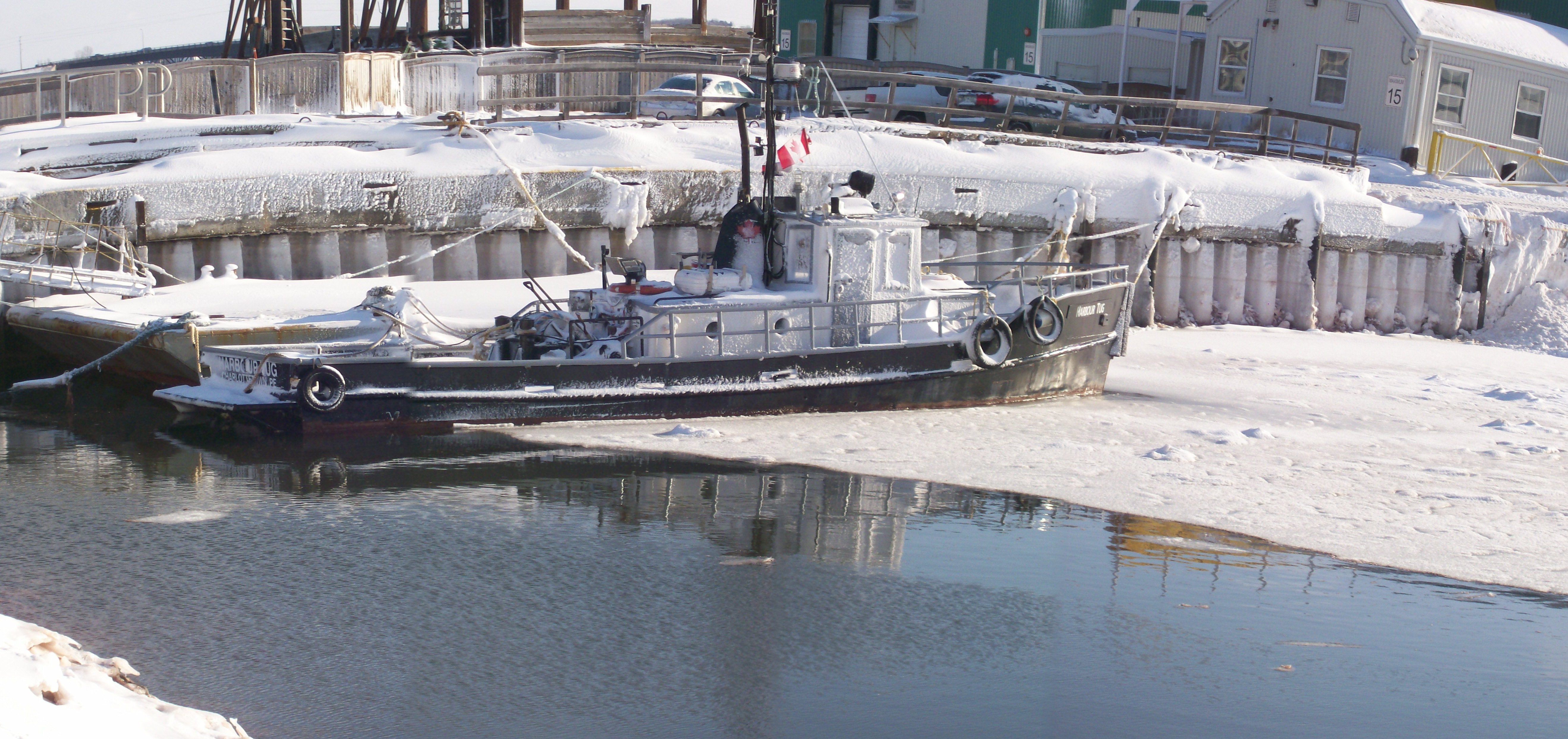 Tugboat in Charlottetown PEI Harbour